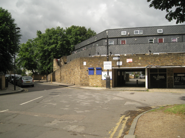 West corner of Myatts Fields South estate